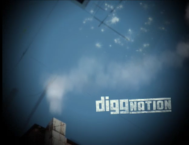 Logo of the podcast as sown on